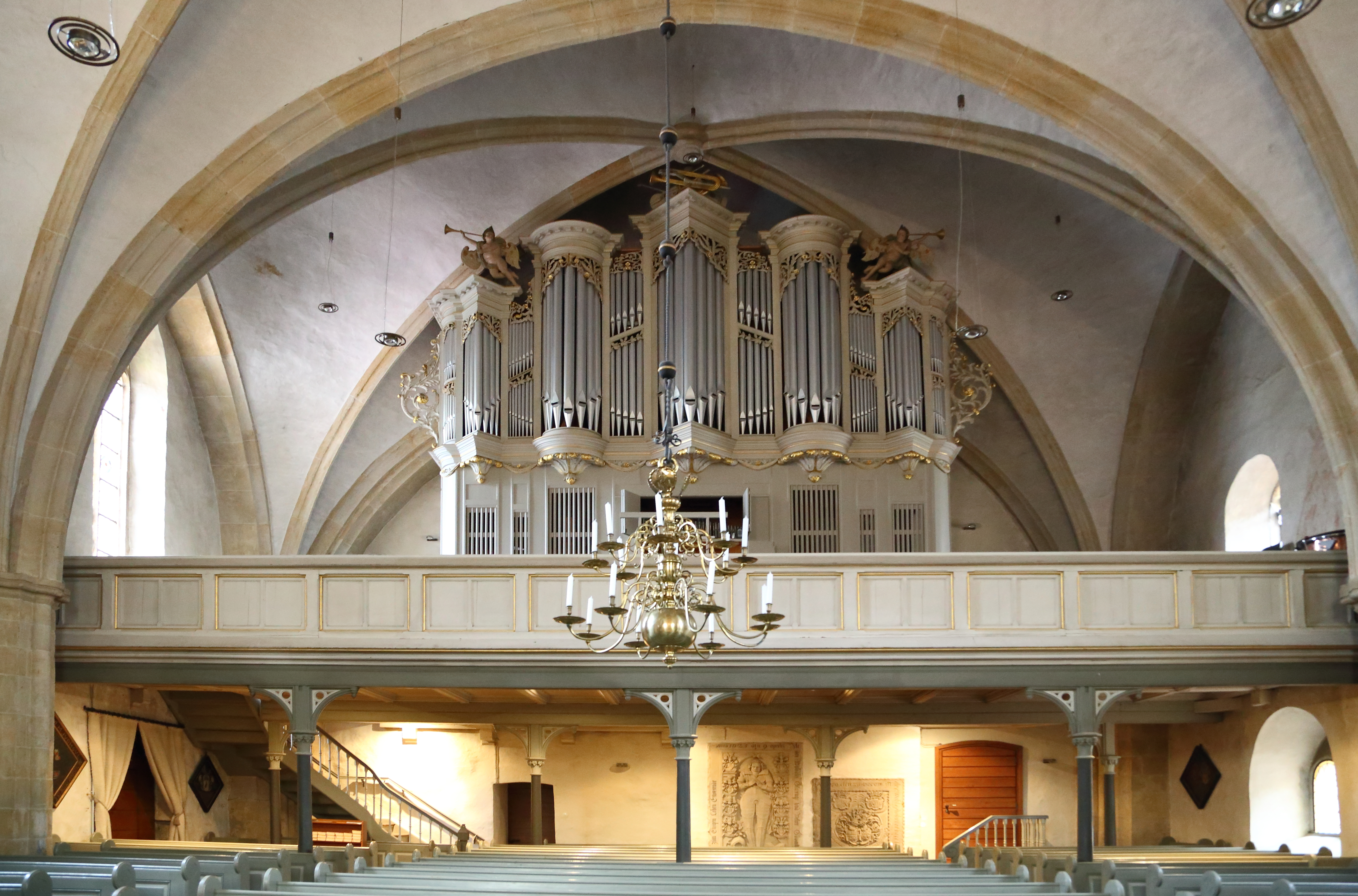 Rohlfing pipe organ of the Protestant City Church (Evangelische Stadtkirche) Westerkappeln, Kreis Steinfurt, North Rhine-Westphalia, Germany.